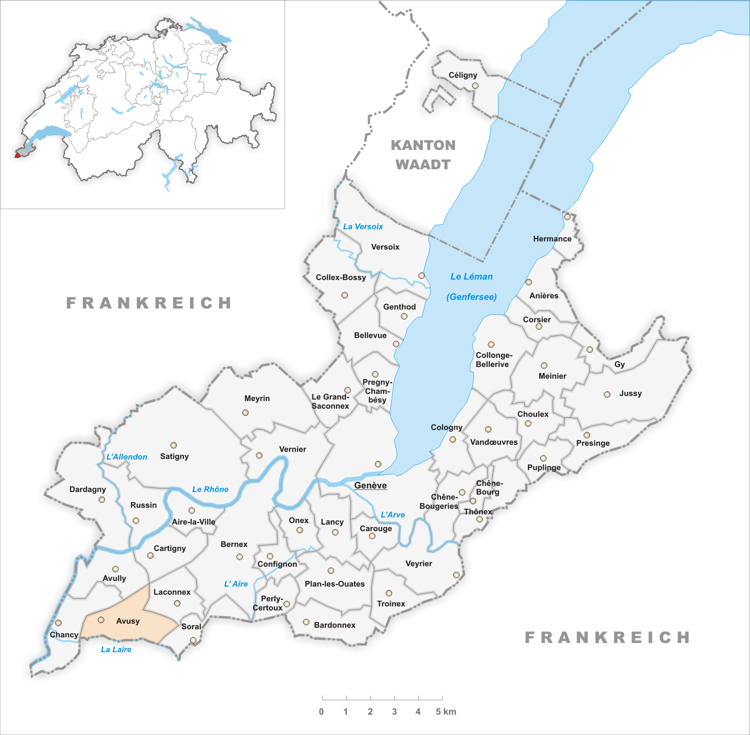 Municipality Avusy